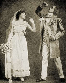 Marie Studholme and George Grossmith, Jr. in Haste to the Wedding at the Criterion Theatre, 1892.